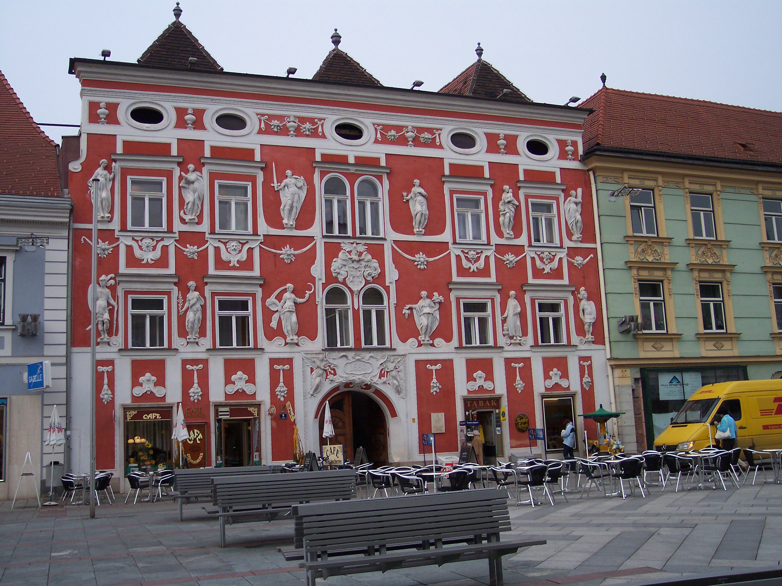 Hacklhouse on main square nr. 9 in Leoben, Styria, built in the 16th century.